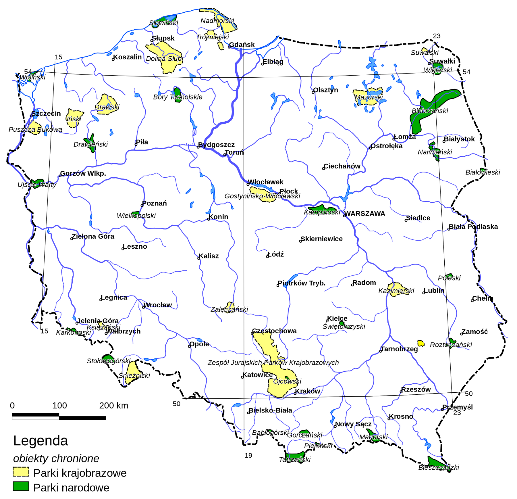 National Parks of Poland; created with Quantum GIS 1.4, source files